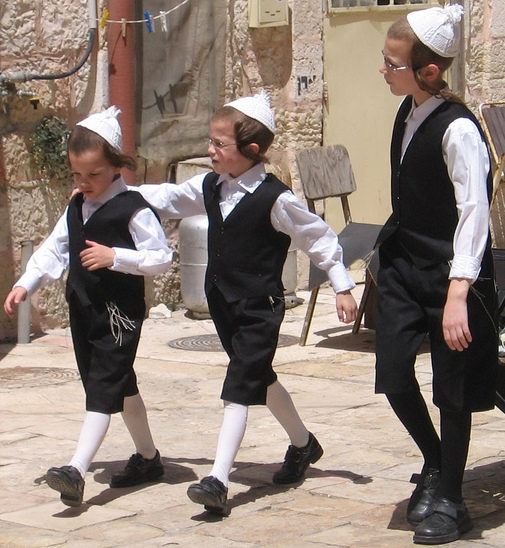 Based onFile:Breslov kids prepare for Shabbat, Mea Shearim, Jerusalem.jpg